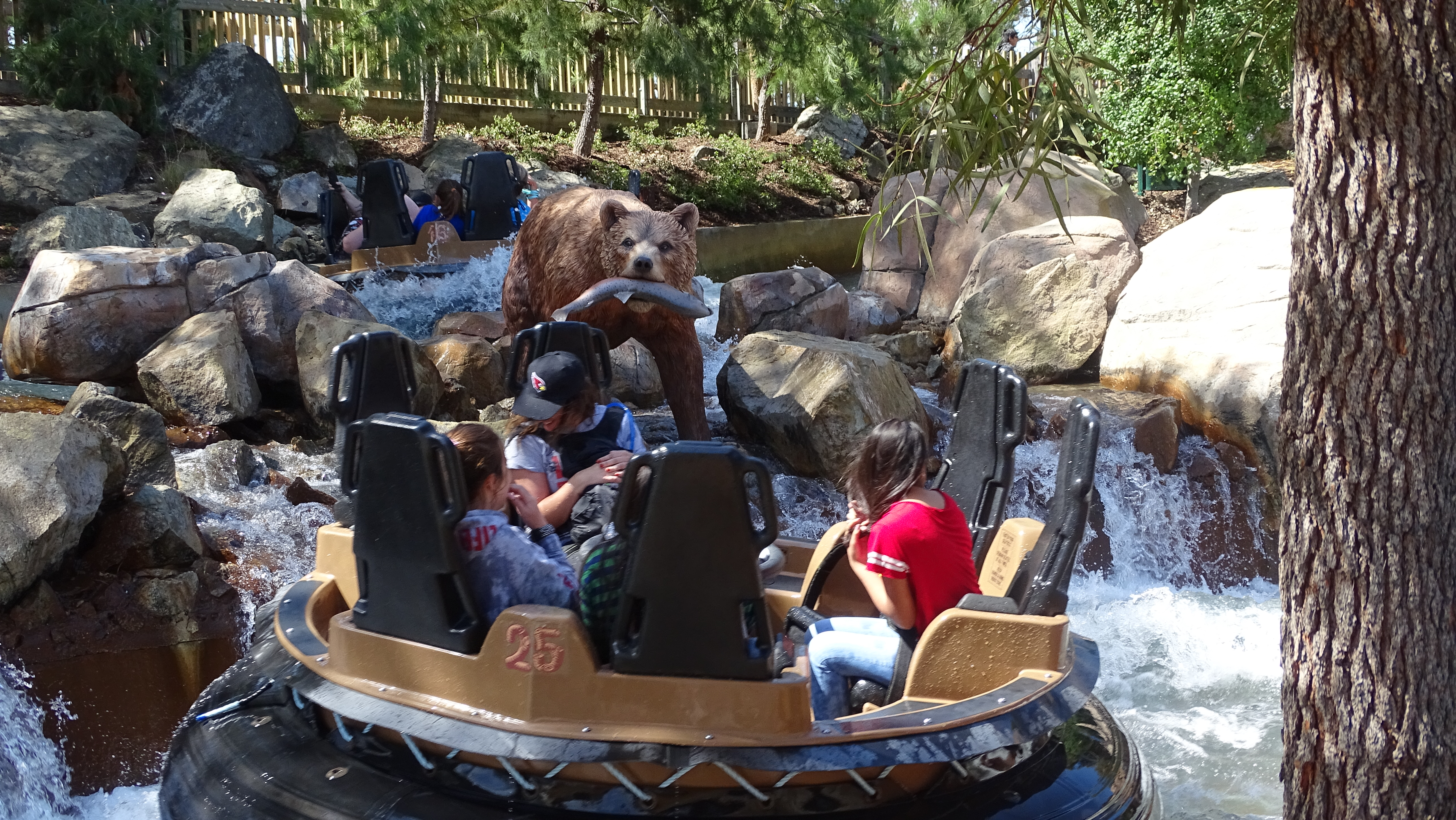 Calico River Rapids on opening day.